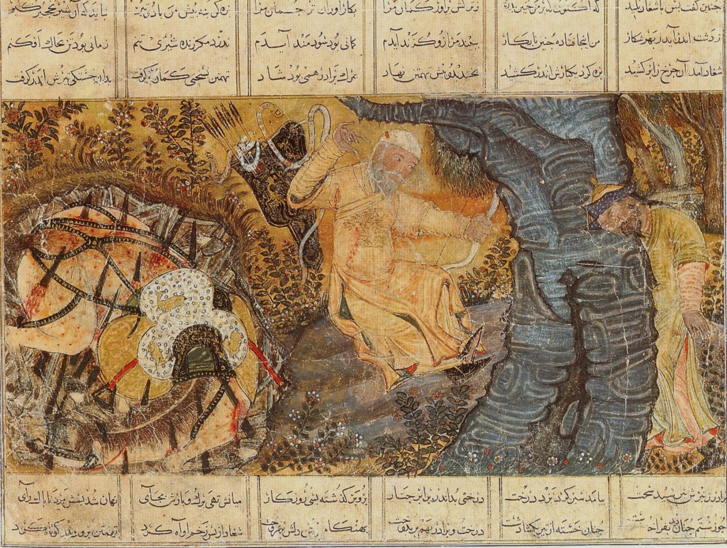 The death of the hero Rustam and his horse Rakhsh, a painting in gouache on paper. From Tabriz, Southern Azerbaijan, north-west Iran